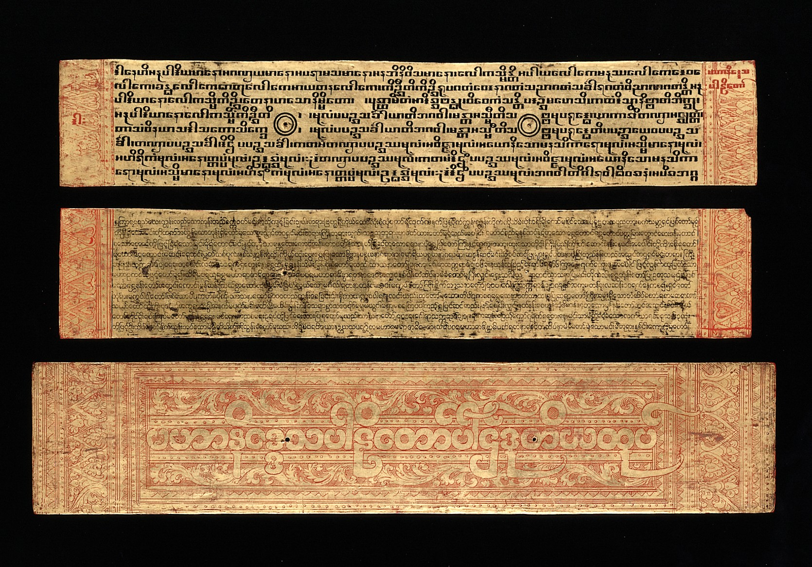 Burmese-Pali manuscript copy of the Buddhist text Mahaniddesa, showing three different types of Burmese script, (top) medium square, (centre) round and (bottom) outline round in red lacquer from the inside of one of the gilded covers Asian Collection Keywords: Burma; burmese-pali; c.2; or. ms. 93; Myanmar